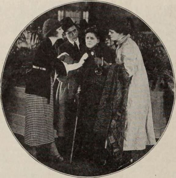 Still from the American comedy romance film The Love Expert (1920) with Constance Talmadge and Nellie Parker Spaulding, on page 76 of the September 4, 1920 Exhibitors Herald.